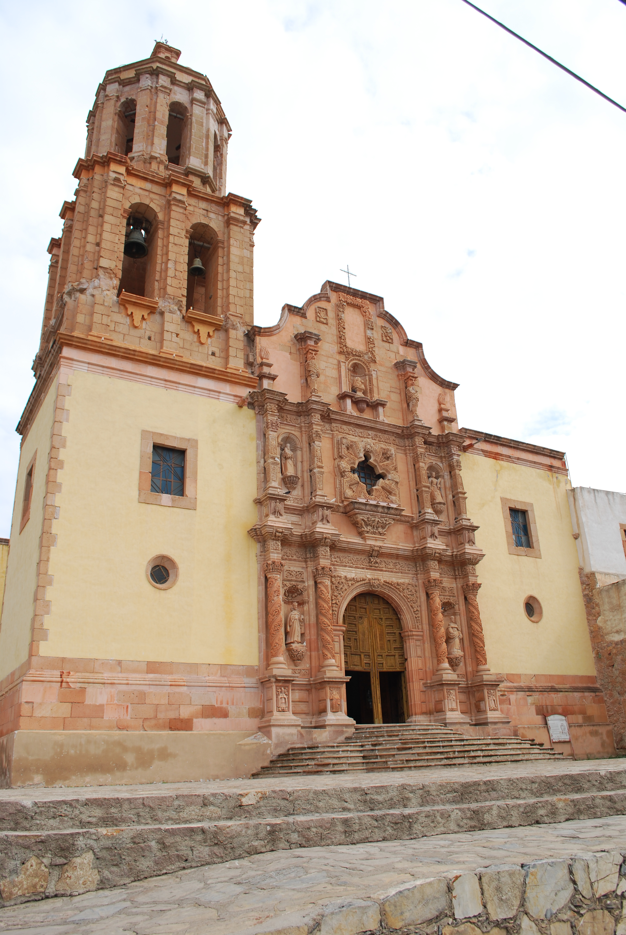 Santo Domingo church in Sombrerete, Zacatecas